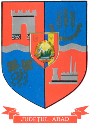 Communist coat of arms of Arad County, Socialist Republic of Romania.